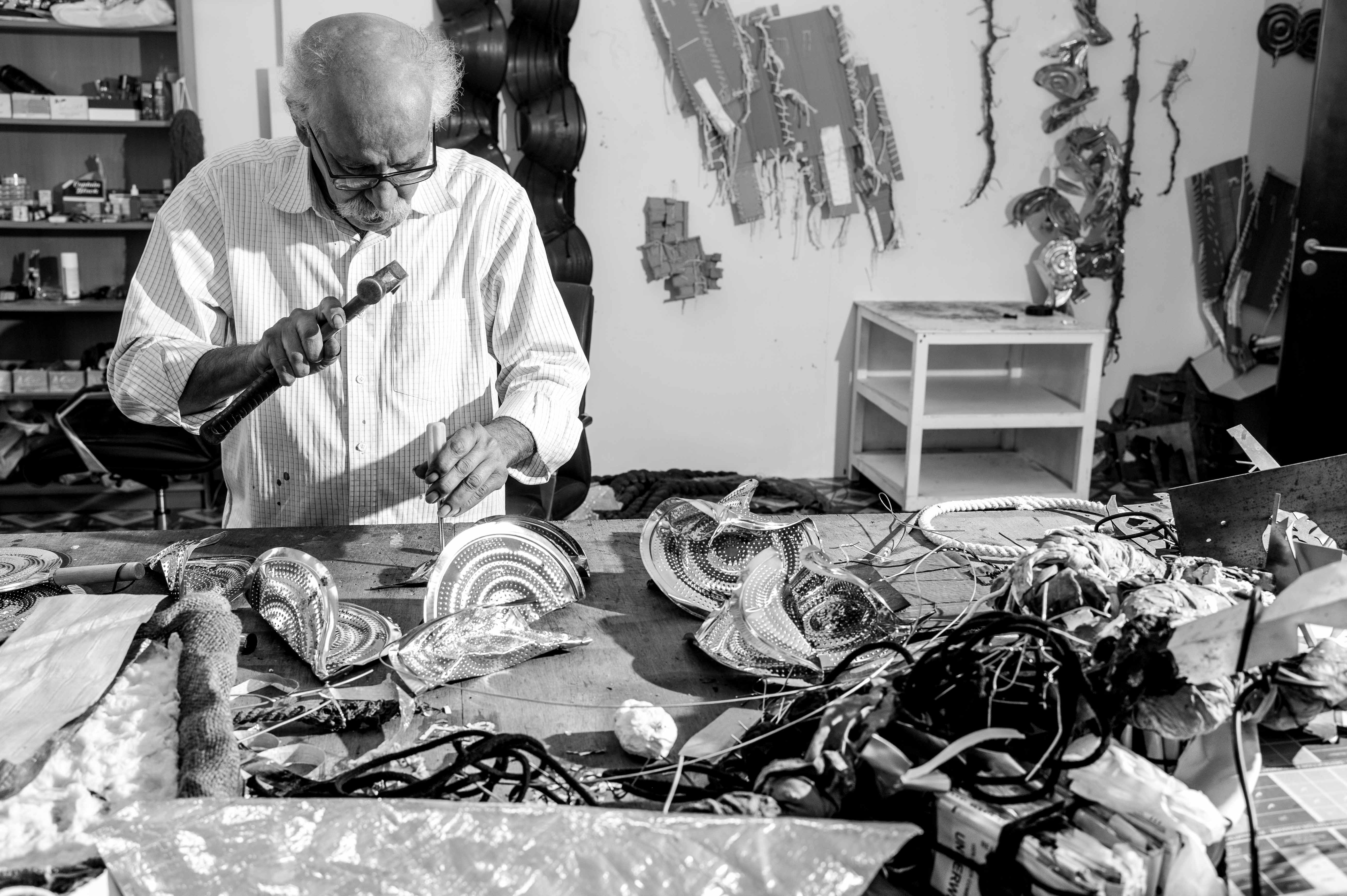 Sharif in his studio Photo by Maaziar Sadr